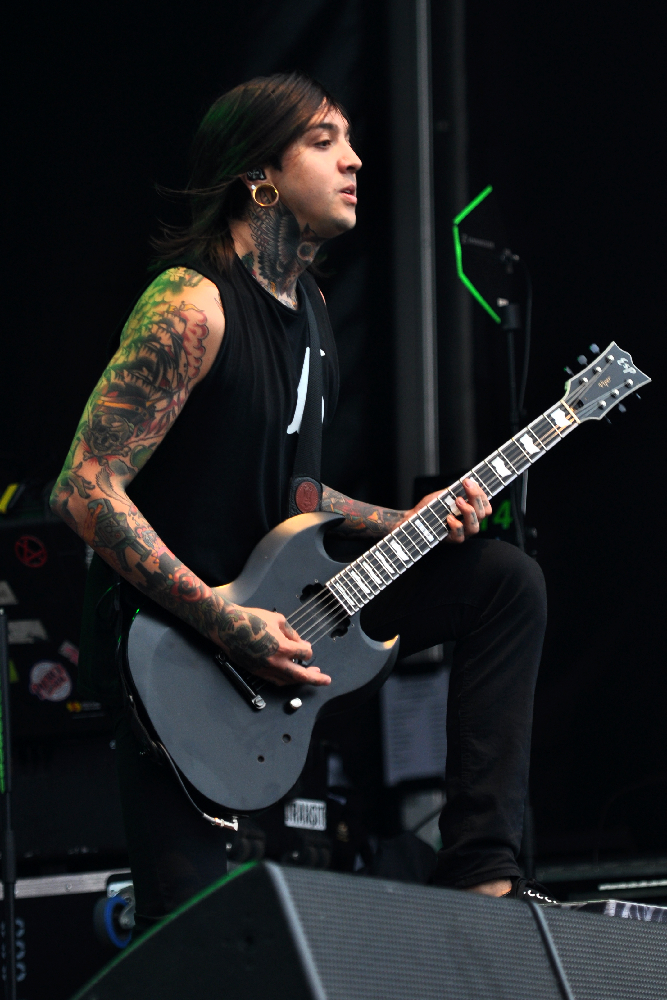 Tony Perry of Pierce the Veil at Rock am Ring 2013